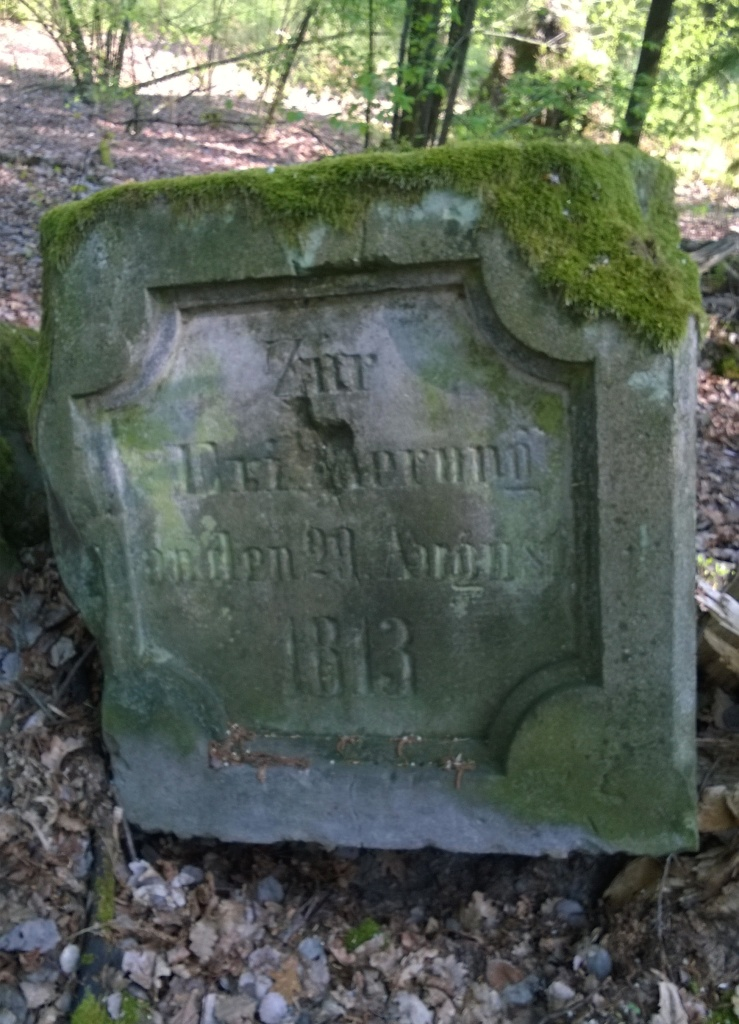 Ruins of the memorial of the Battle at Bobr 29.08.1813